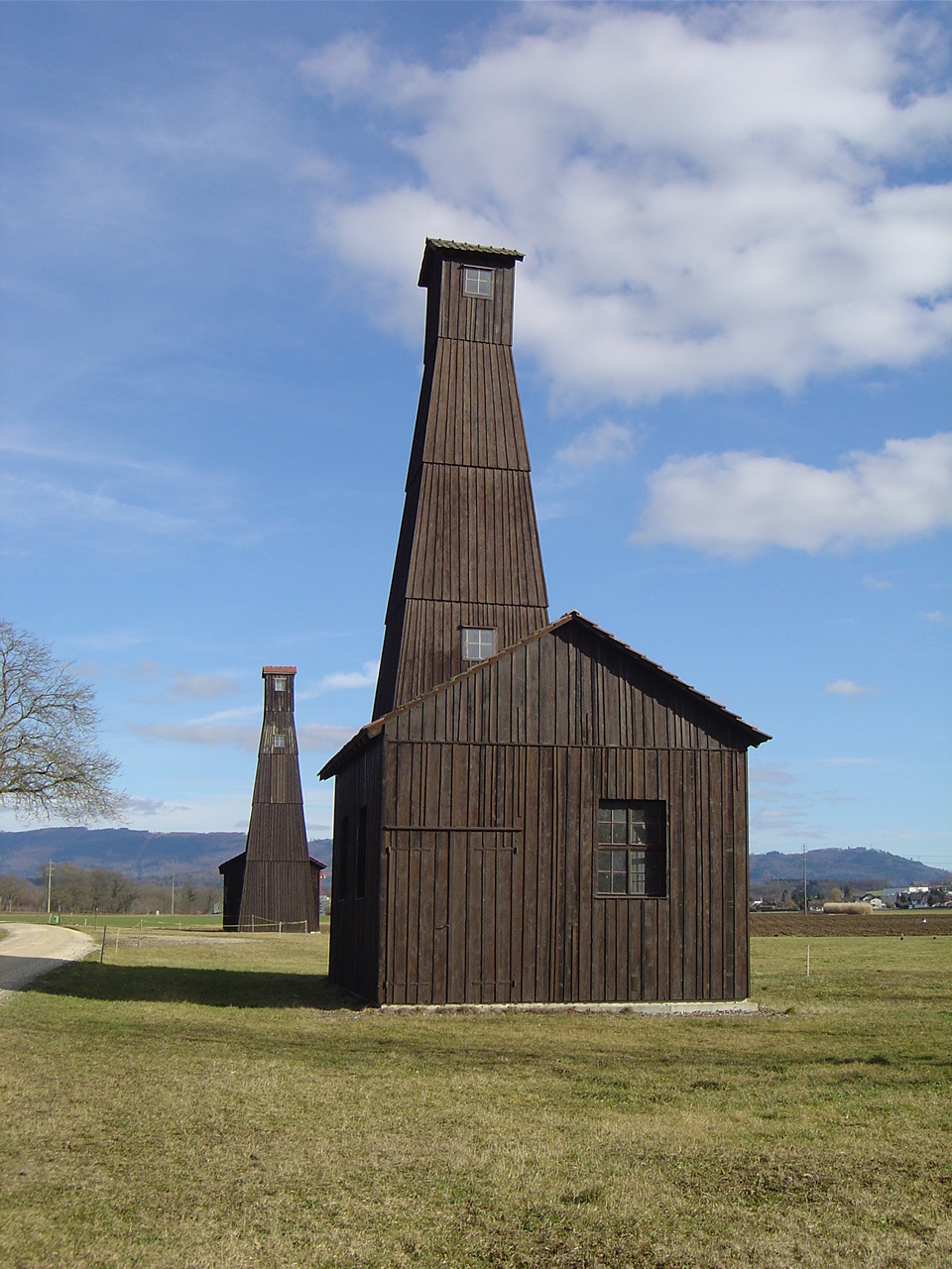 the salt evaporation pond Riburg in Rheinfelden near Möhlin, Switzerland